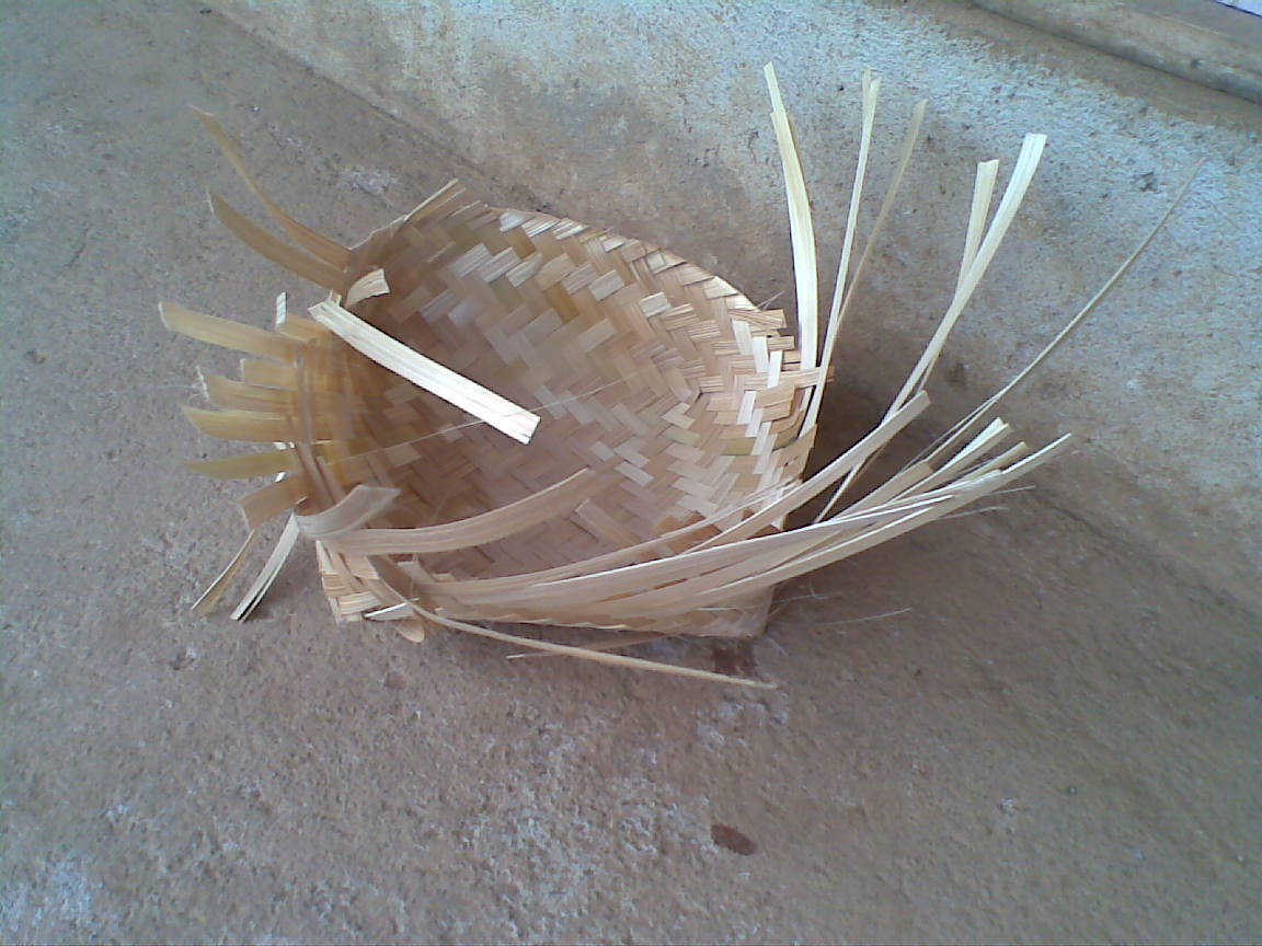 Braiding a bamboo basket.